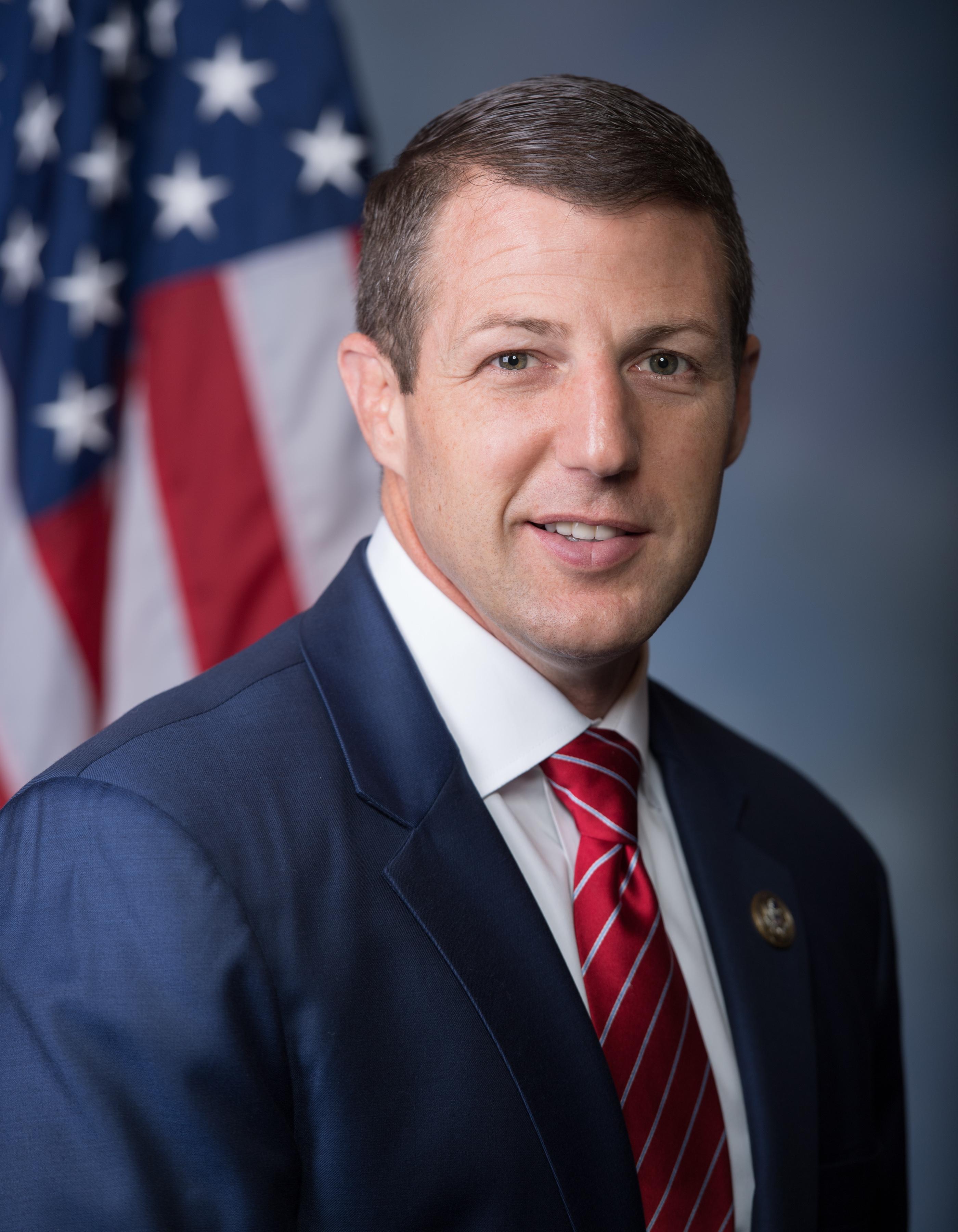 Markwayne Mullin official photo